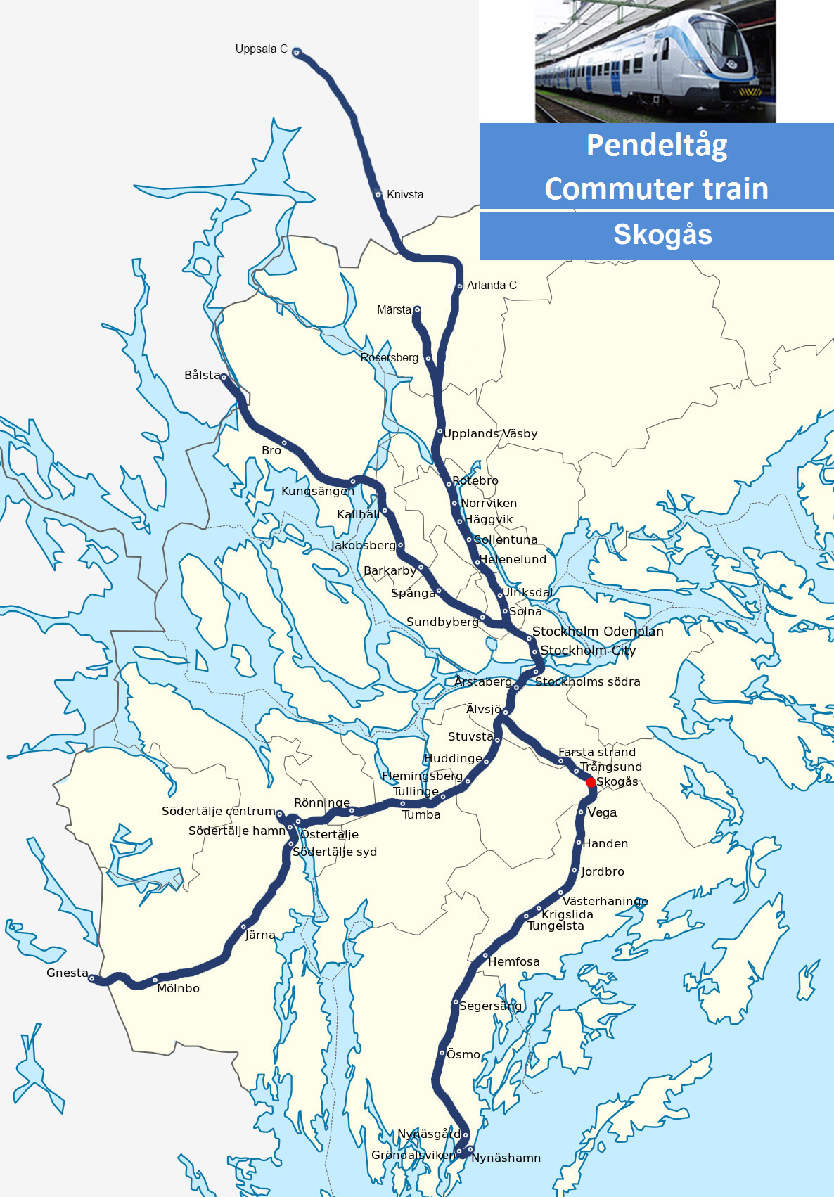 Skågas station map